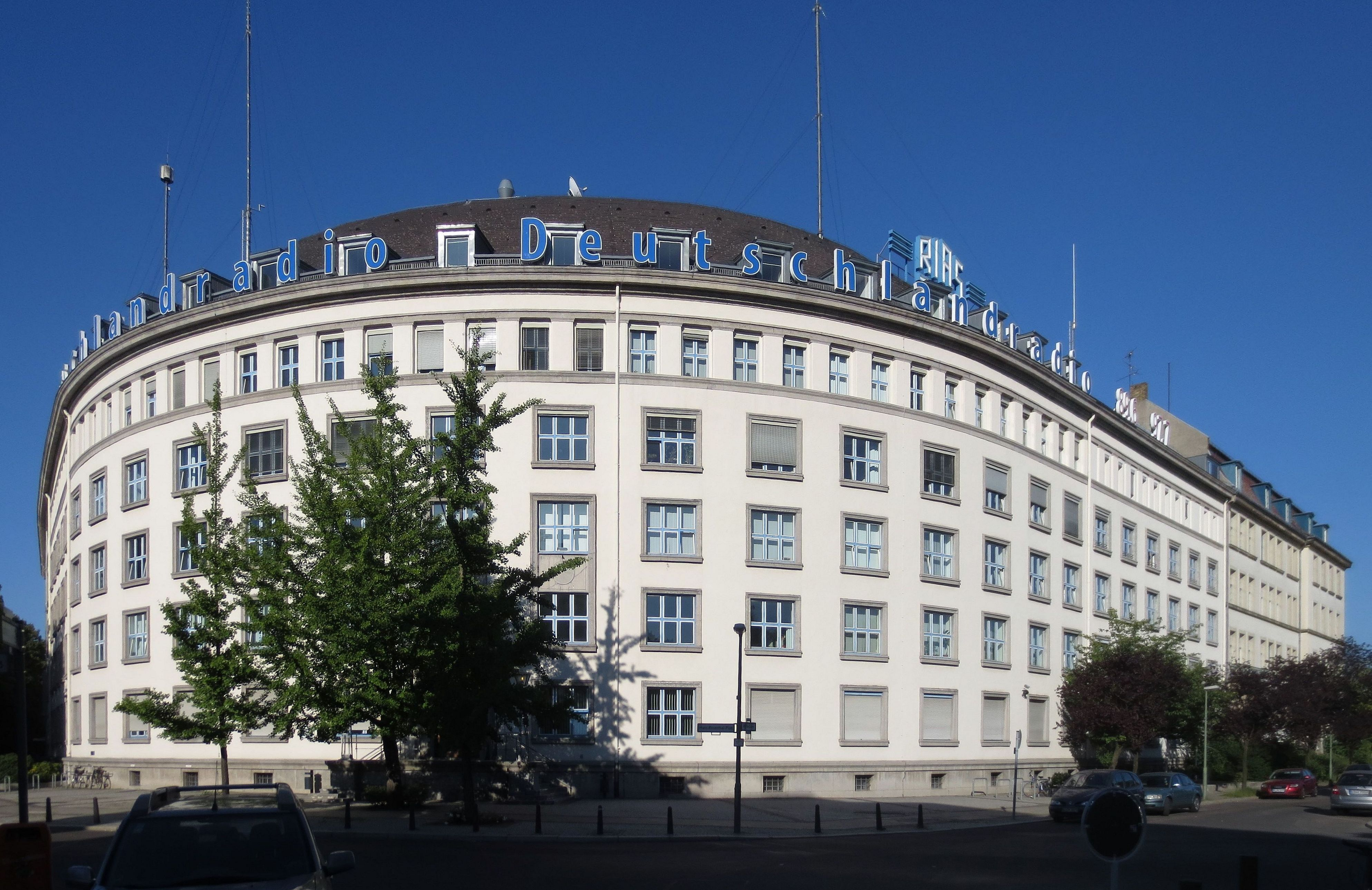 The RIAS broadcasting center at Hans-Rosenthal-Platz No. 1, corner of Fritz-Elsas-Straße (on the left) and Mettestraße (on the right), in Berlin-Schöneberg. The building was constructed from 1938 to 1941 to a design by Walter Borchard for the Bayerische Stickstoffwerke AG. Extensions were constructed between 1964 and 1974. The building has been designated as a cultural heritage monument.